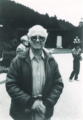 Richard Friederich Arens (1919-2000), German-American mathematician.